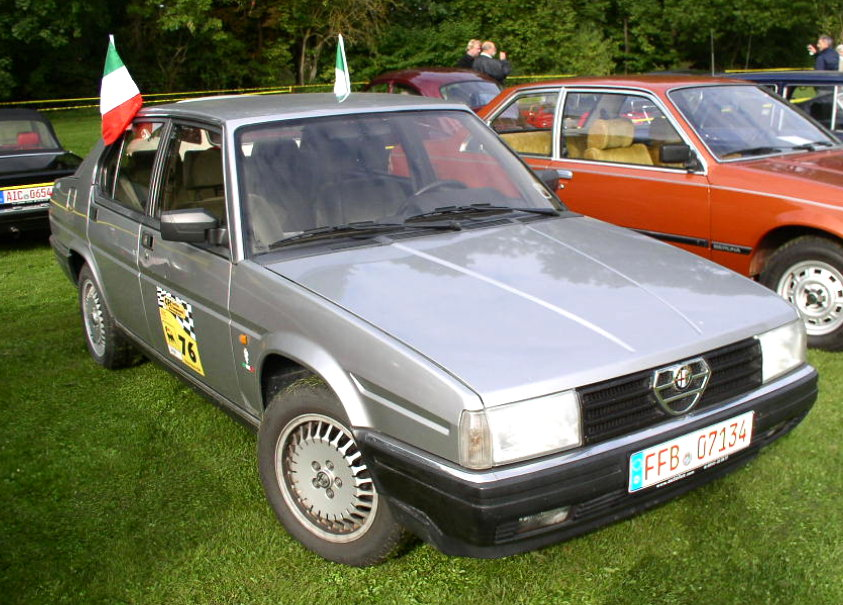 Alfa Romeo Alfa 90